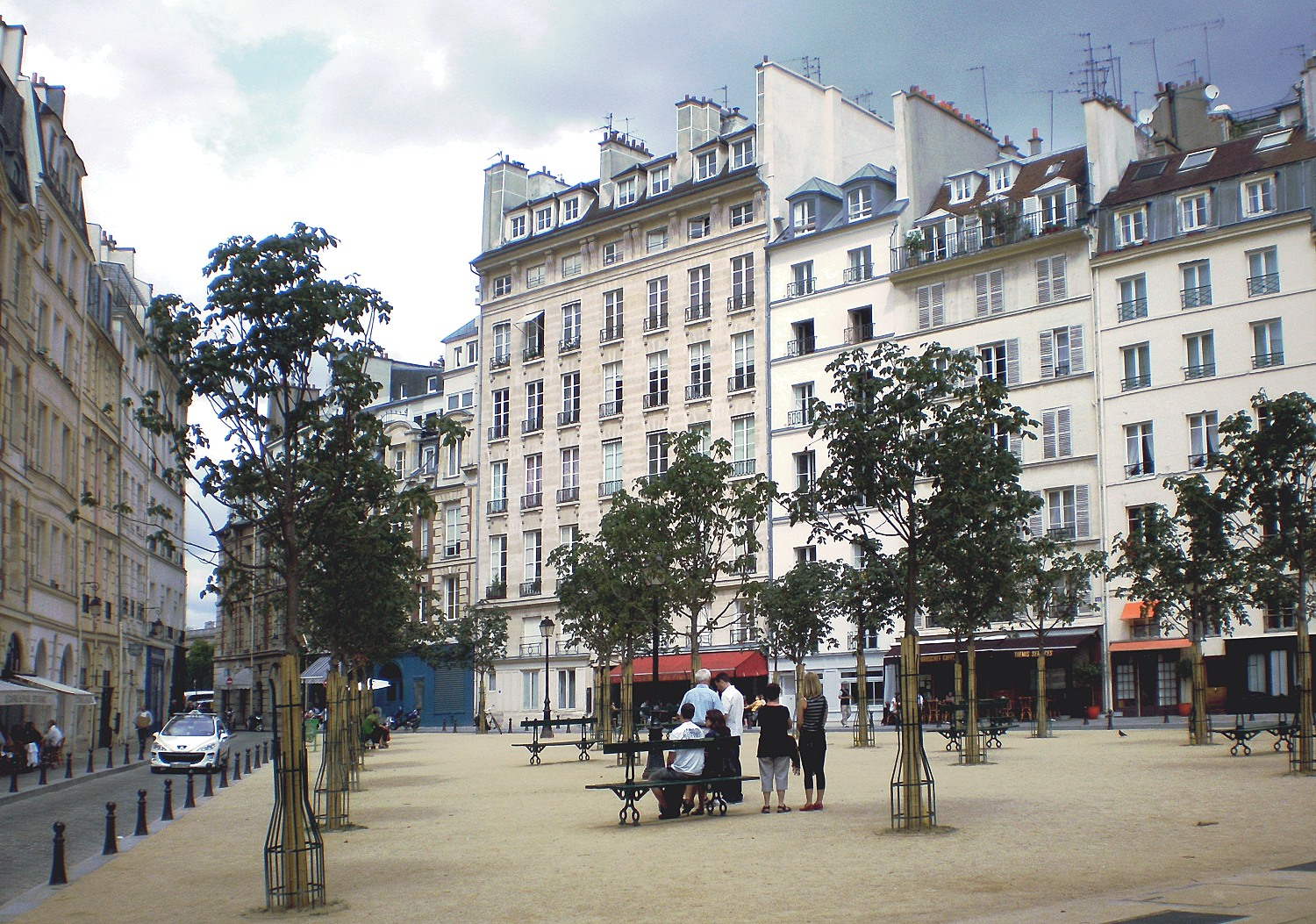 Place Dauphine (Paris)